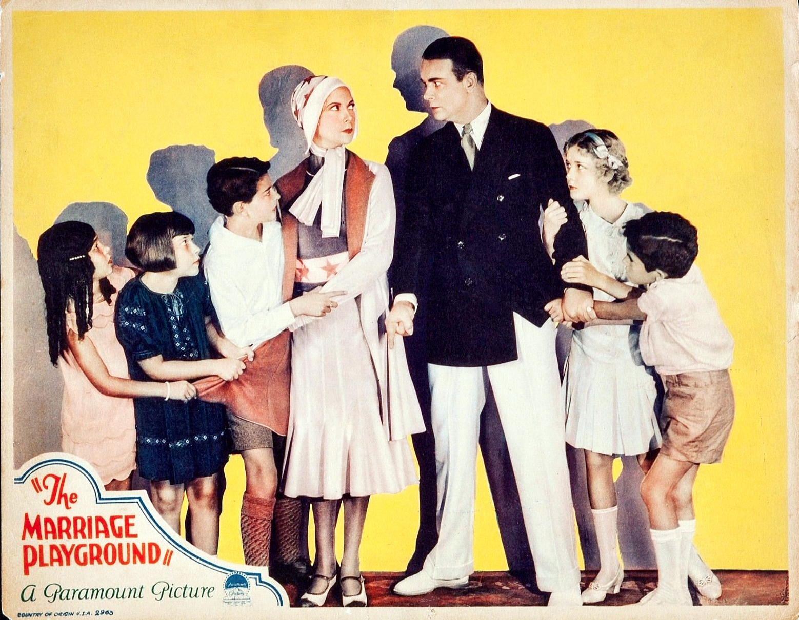 Lobby card from the American drama film The Marriage Playground (1929).